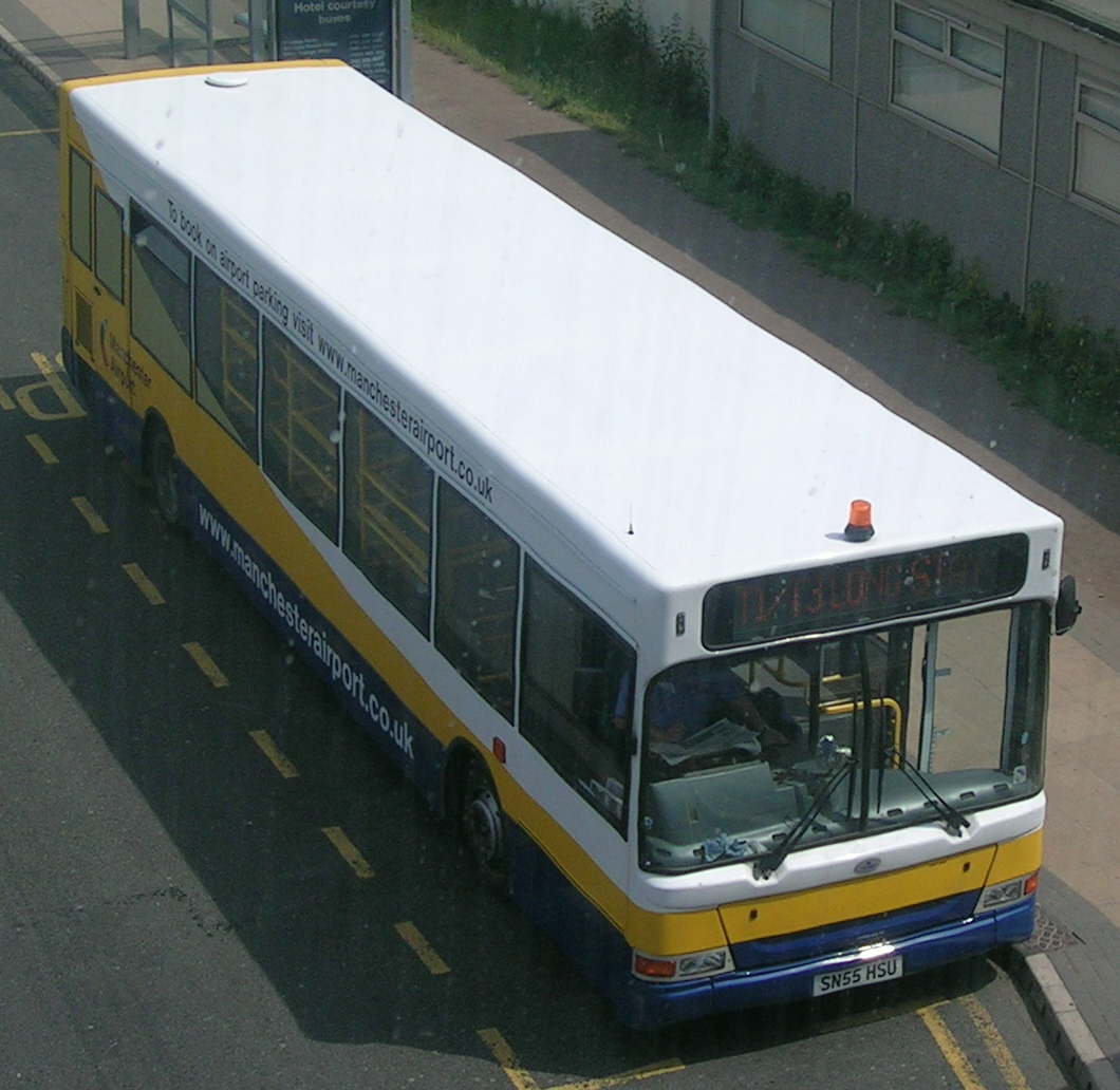 Manchester Airport bus (reg. SN55 HSU), a 2005 Alexander Dennis Dart midibus with Alexander Dennis Pointer bodywork. It's pictured operating the free transfer service to and from the Terminal 1 & 3 long stay car park.